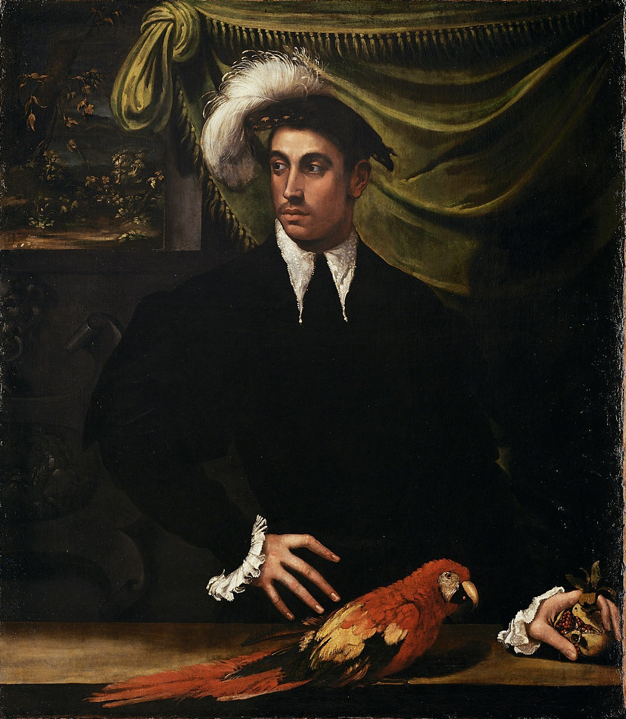 Portrait of a young Man with Parrot and Pomegranate (Vienna). Documentary photo of 16th century painting